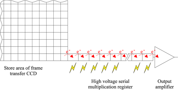 Diagram of an EMCCD device. Electrons are transferred serially through the gain stages making up the multiplication register of an L3Vision CCD. The high voltages used in these serial transfers induce the creation of additional charge carriers through impact ionisation.